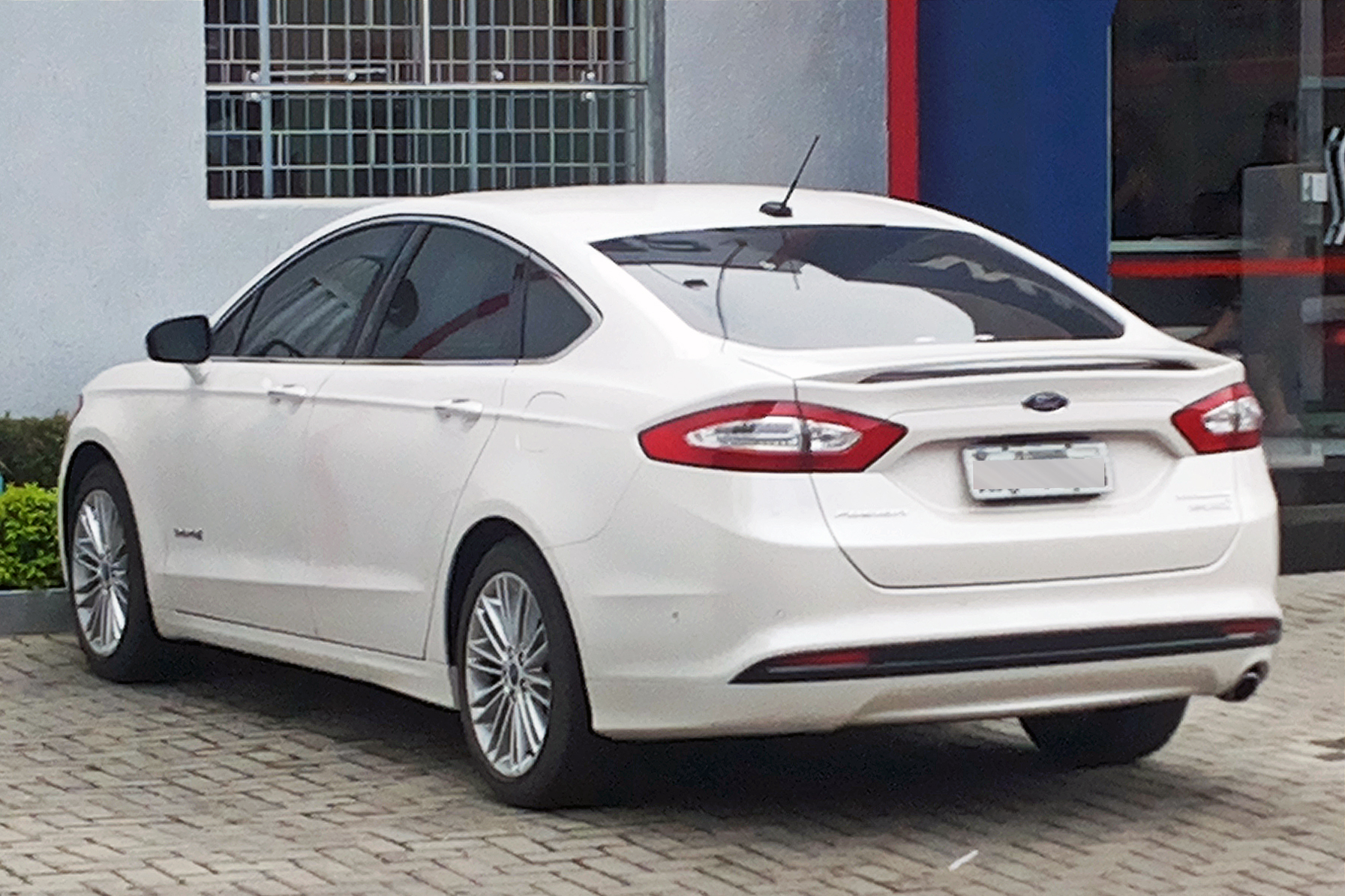 Brazilian version of the Ford Fusion Hybrid (2nd gen) Titanium trim in Paranaguá, Paraná state, Brazil.